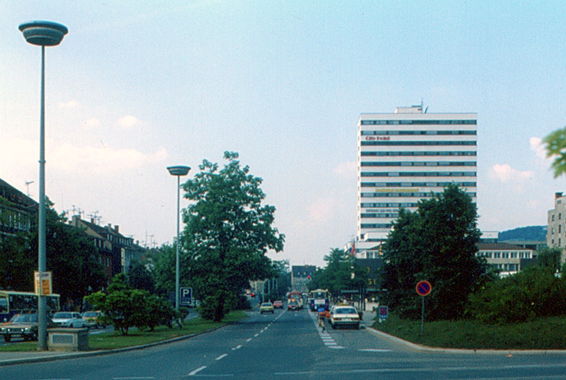 The Allee in Heilbronn was built in the mid-19th century where the city walls had been. The City Hotel is in the background.